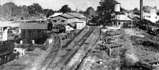 A historical photograph of Dibrugarh railway yard in 1943 অসমীয়া: ১৯৪৩ চনৰ ডিব্ৰুগড় ৰেল য়াৰ্ডৰ এখন ঐতিহাসিক আলোকচিত্ৰ